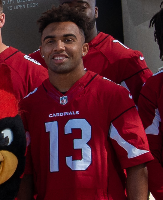 Member of the Arizona Cardinals and 61st Fighter Squadron pose for a group photo in front of an F-35A Lightning II during a visit Nov. 6, 2018 at Luke Air Force Base, Ariz. The Cardinals were given an in-depth view of the F-35 as part of their tour of Luke AFB. (U.S. Air Force photo by Airman 1st Class Aspen Reid)